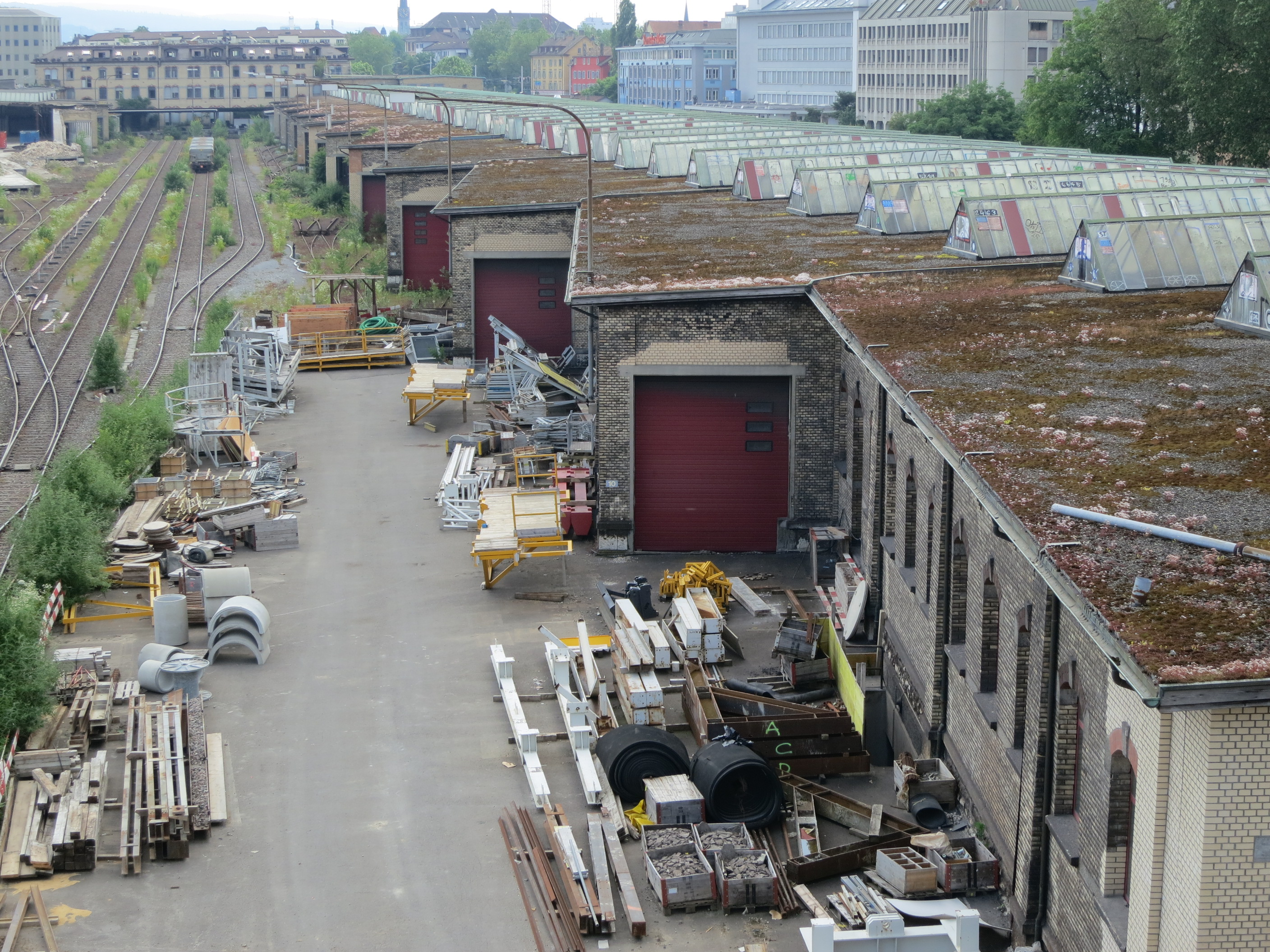 ehemaliger Güterbahnhof, Zürich-Hard, Schweiz